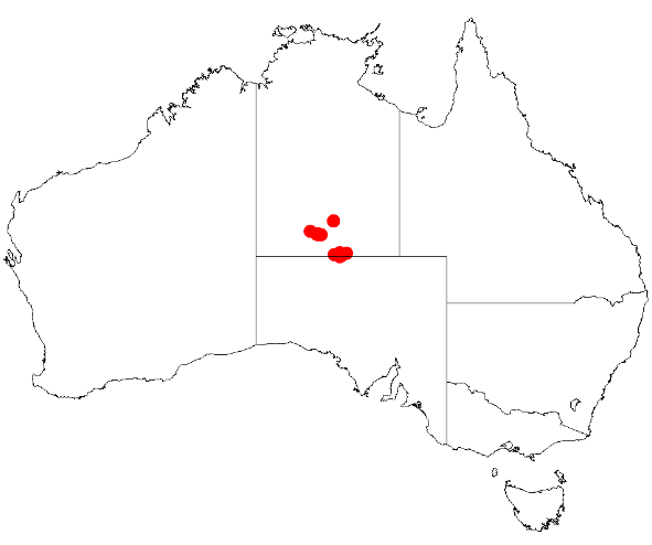 Acacia latzii Occurrence data from Australasia Virtual Herbarium downloaded from on 8 December 2018